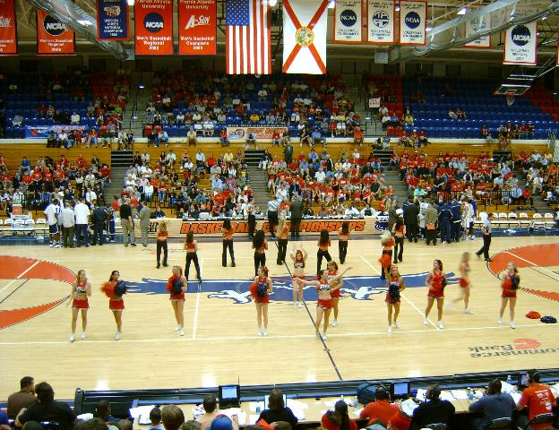 This is a shot of "The Burrow" from the FAU-FIU Sun Belt Conference Tournament game. I took the picture myself.